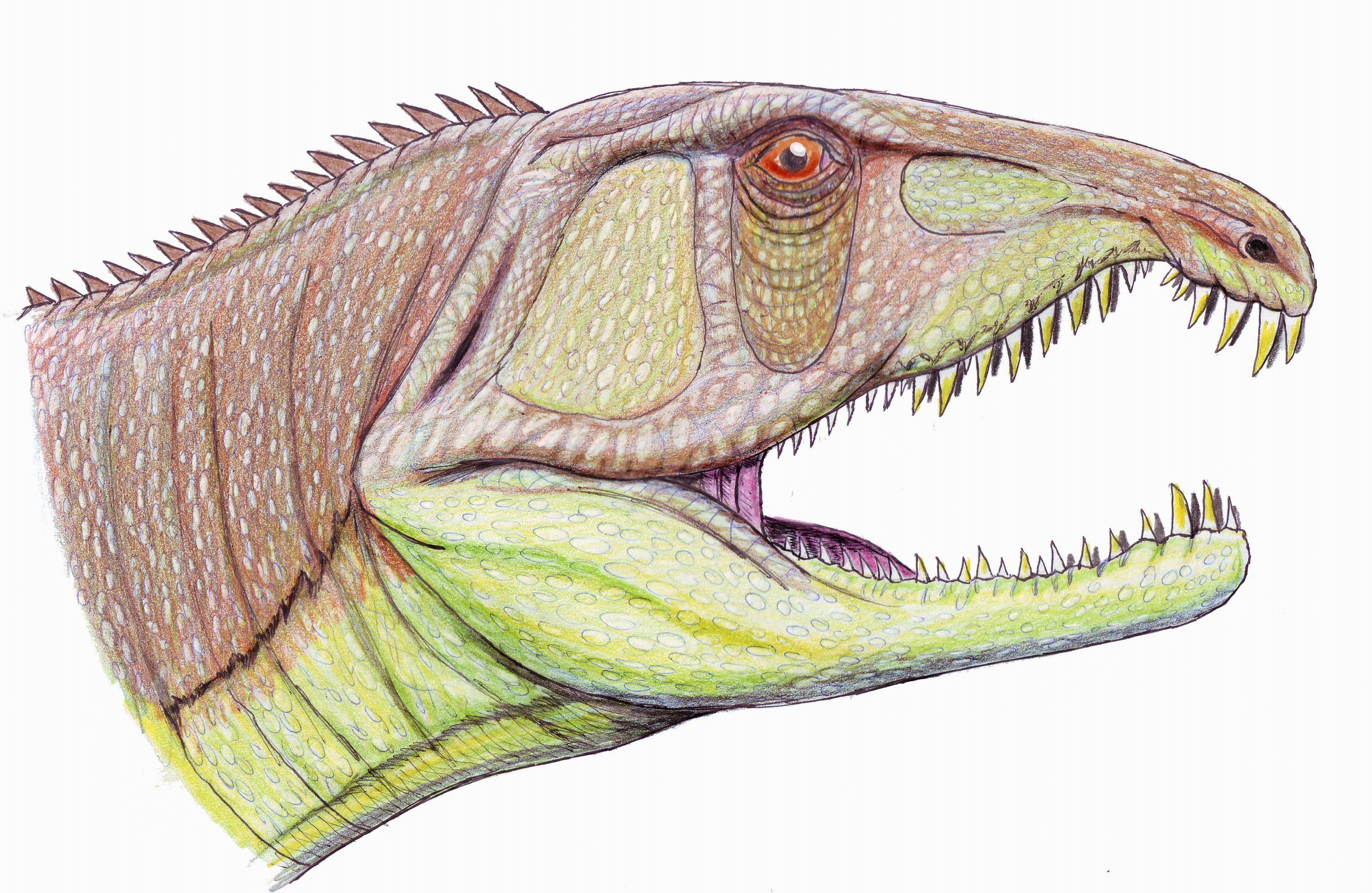 Head of giant proterosuchid Sarmatosuchus otschevi from Middle Triassic (Anisian) of Orenburg region.